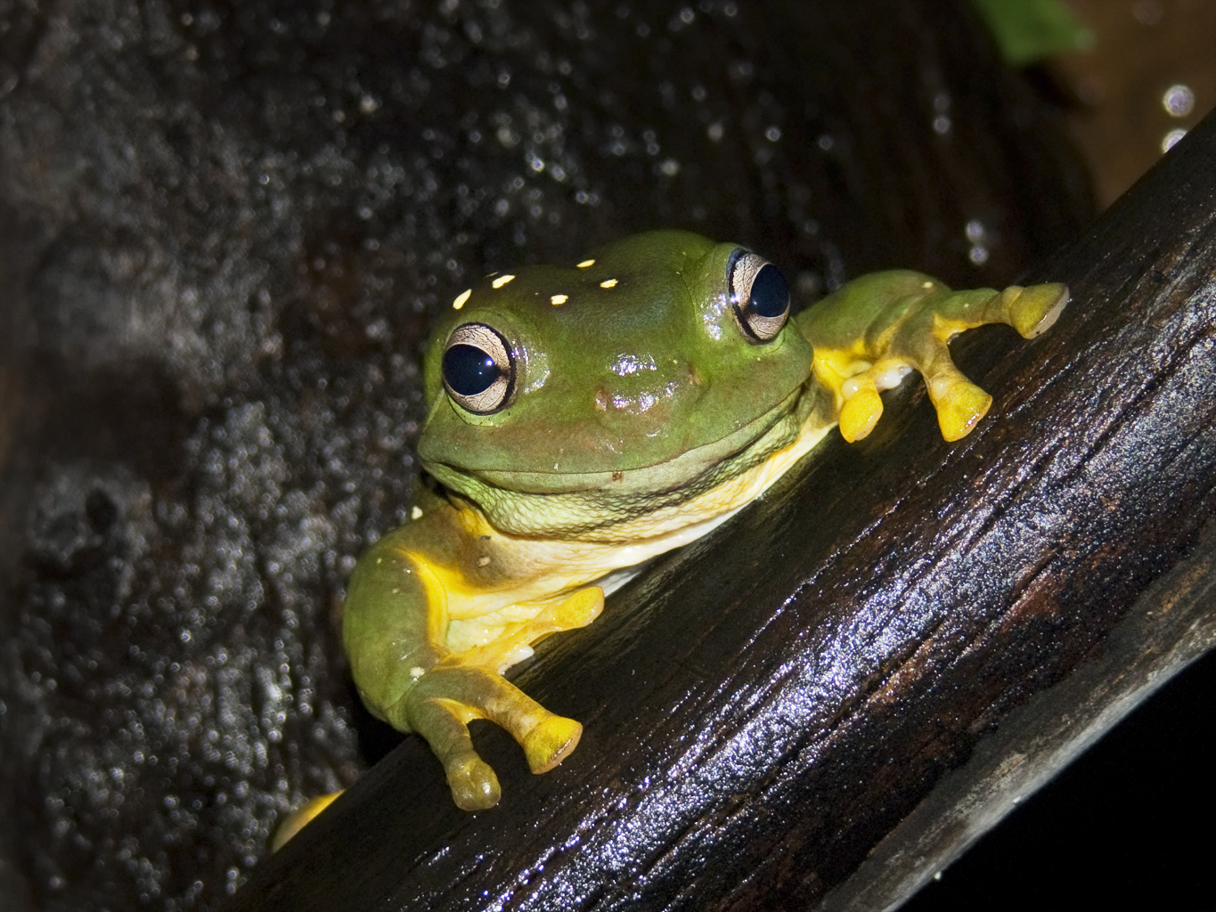 A Splendid tree frog, Litoria splendida other version